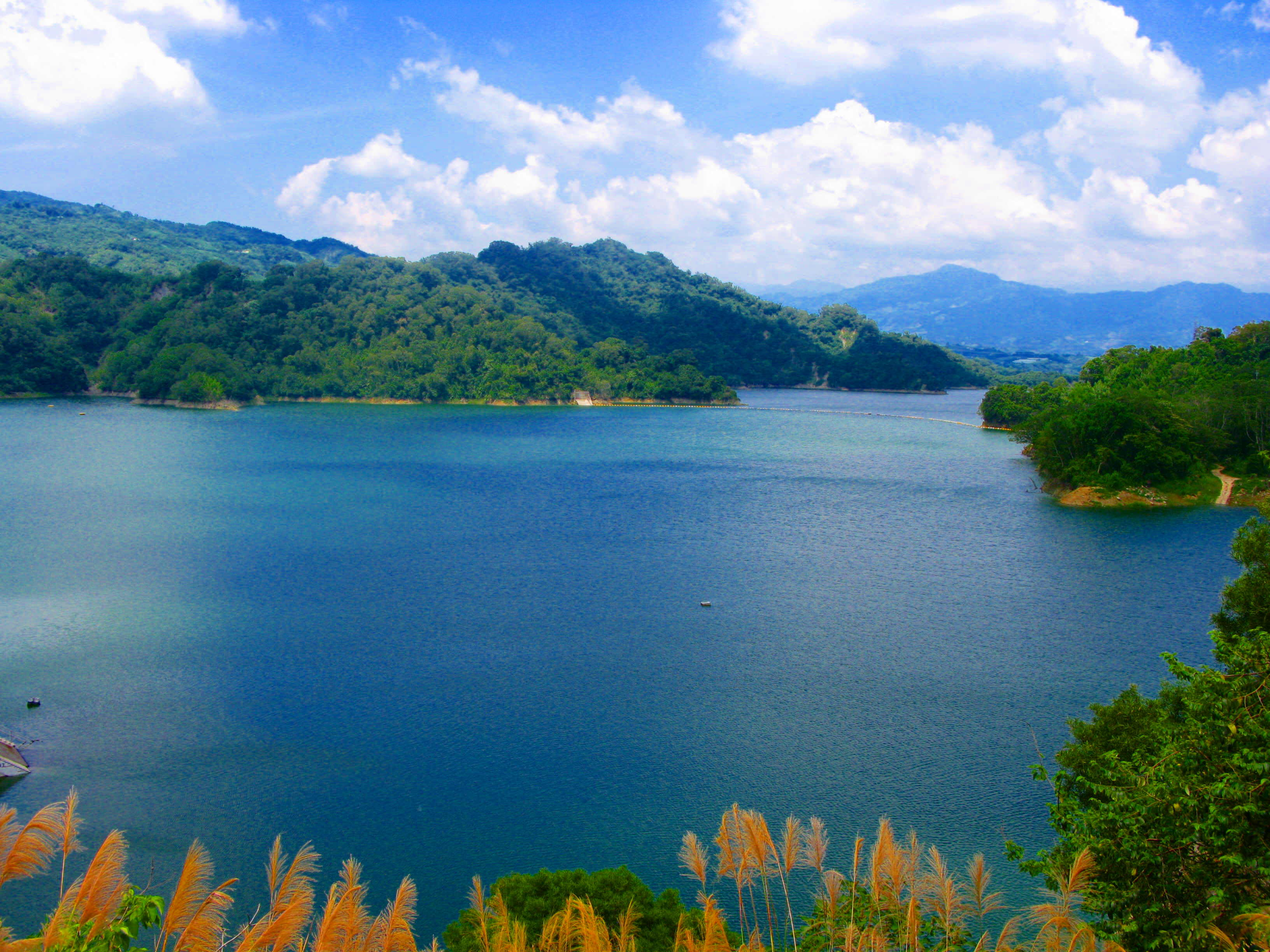 Liyutan Reservoir